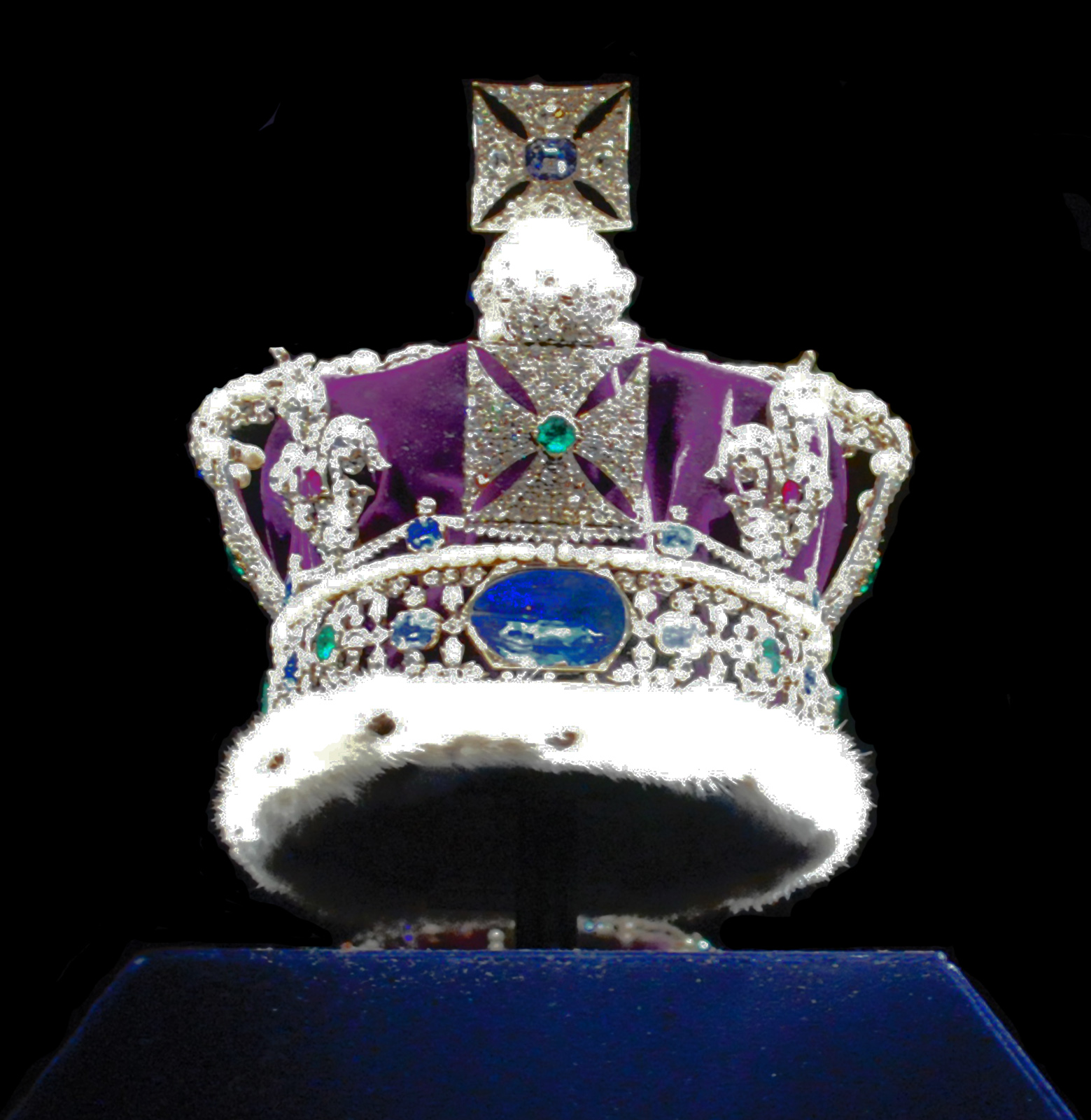 Back of the Imperial State Crown (made in 1937 with alterations in 1953) – A cropped, blackened and cleaned up version of another image on commons